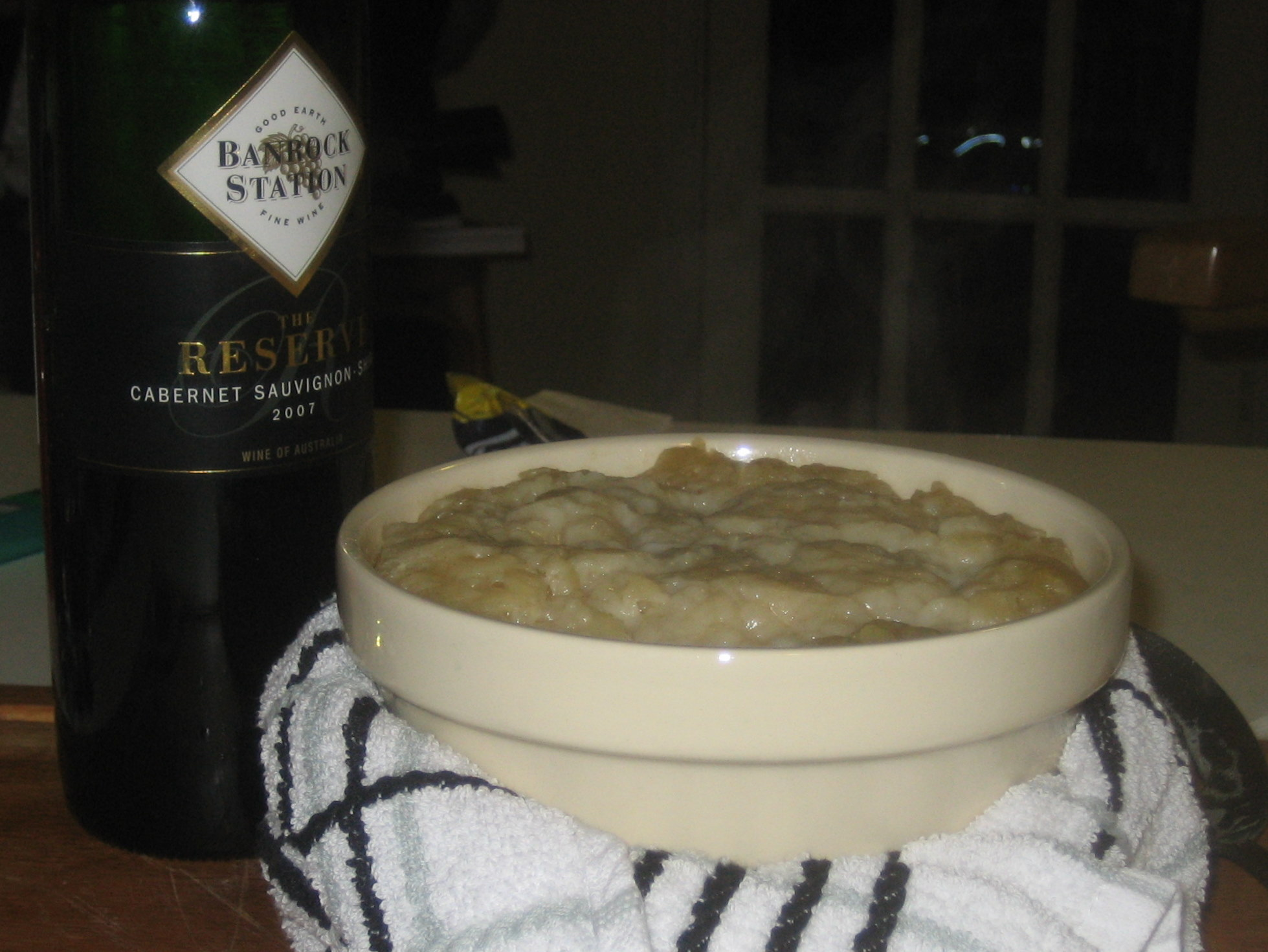 Sunday, November 30th, 2008. Made a steak and kidney pudding for tea. Delicious with a nice Shiraz.